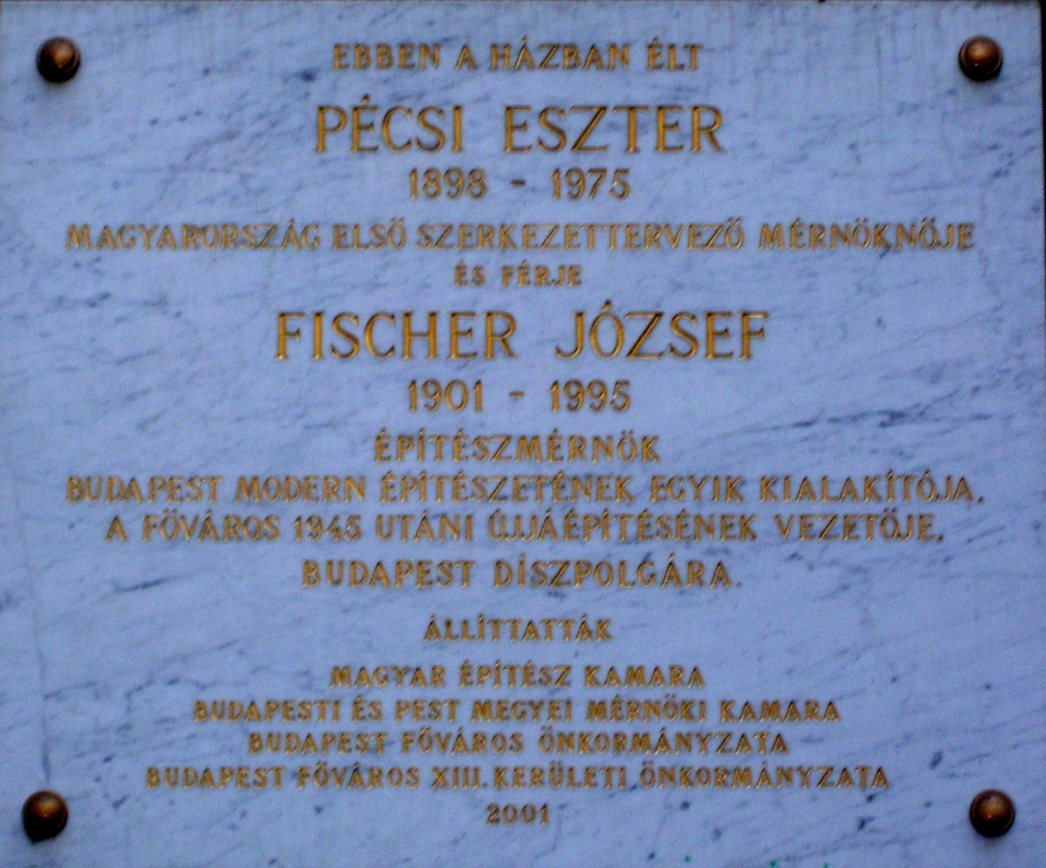 Eszter Pécsi and József Fischer (architect) commemorative plaque in Budapest District XIII.